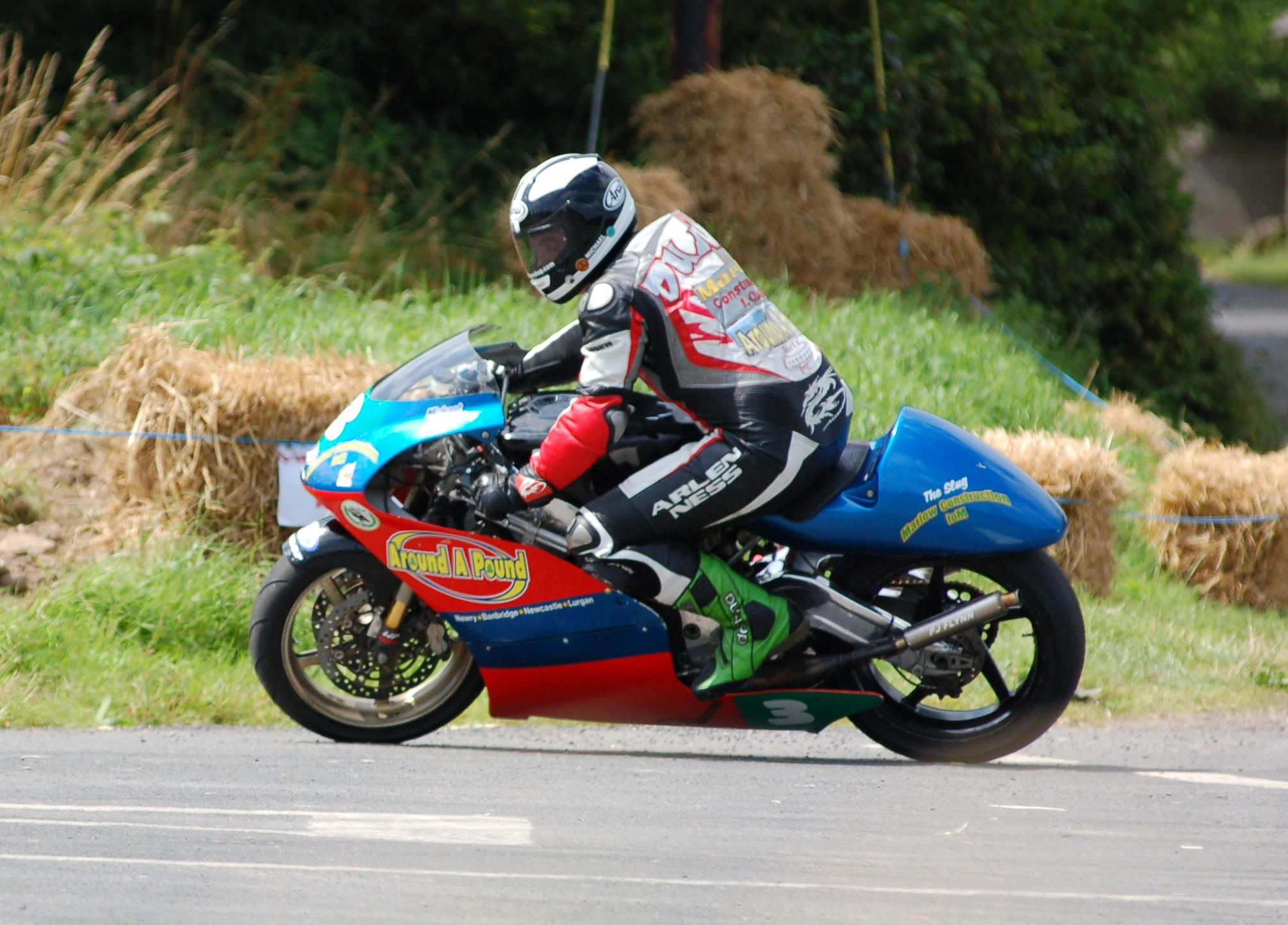 Michael Dunlop at the Faugheen road races in 2008.